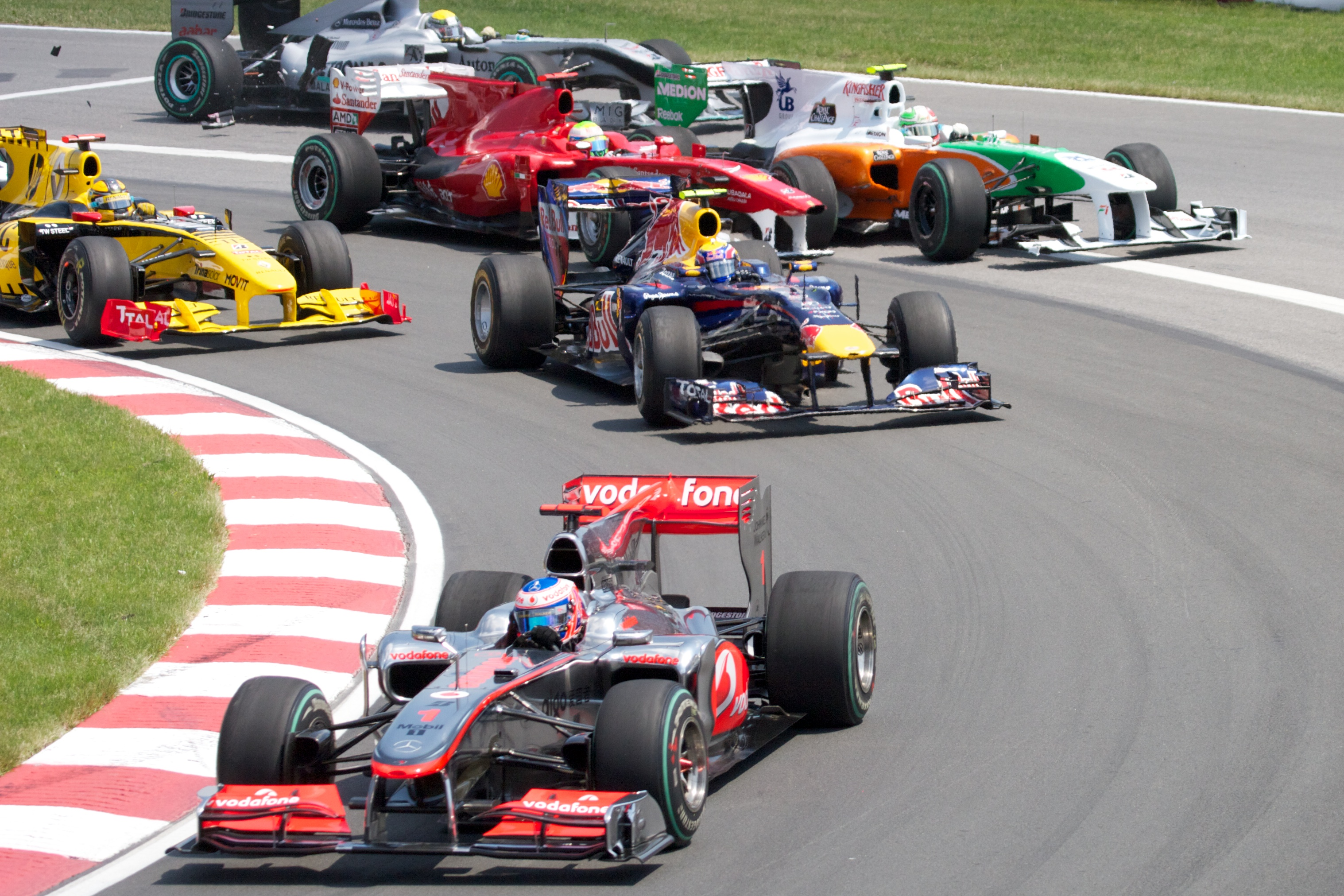 Lap 1 Turn 2, Trouble already. Button leads ensuing chaos